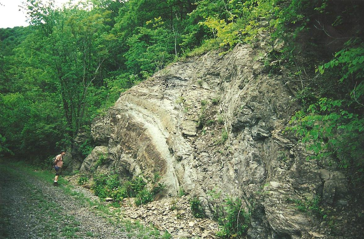 Anticlinal fold in Silurian Wills Creek Formation or Bloomsburg Formation along Western Maryland Railway cut at Roundtop Hill (Maryland), southwest of Hancock, Maryland